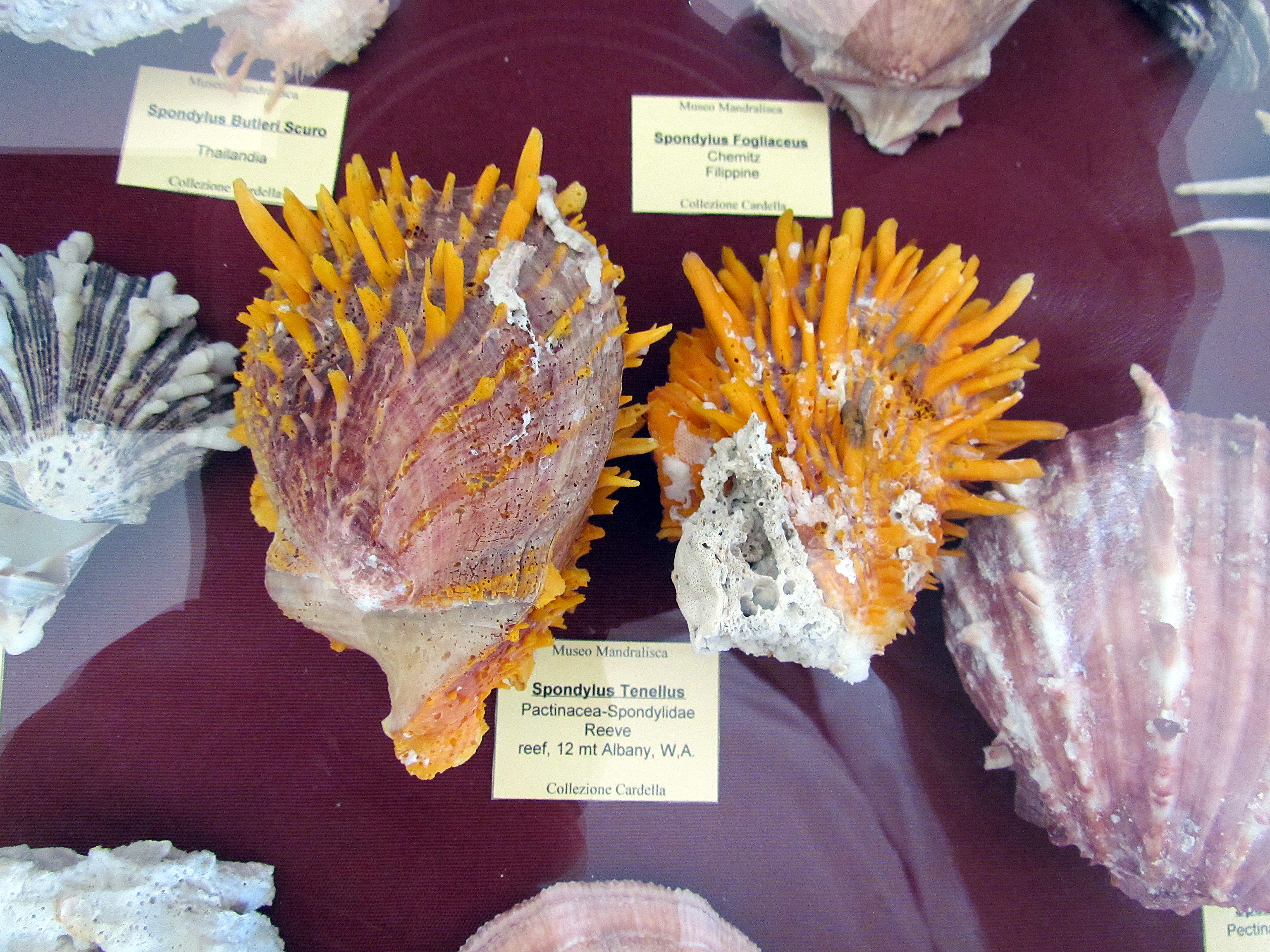 See shells.